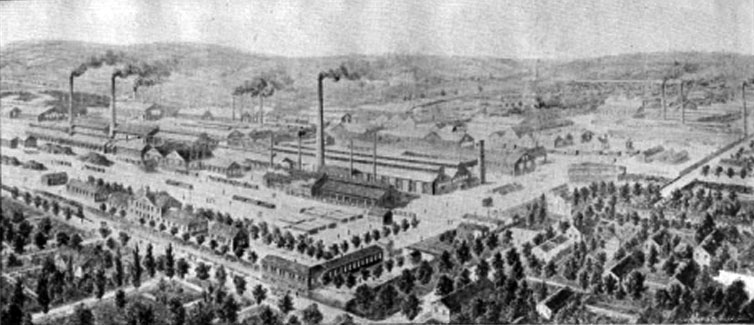 Panorama of the Diósgyőr Metallurgical Factory in 1900